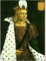 Ramon Berenguer II. (Barcelona)